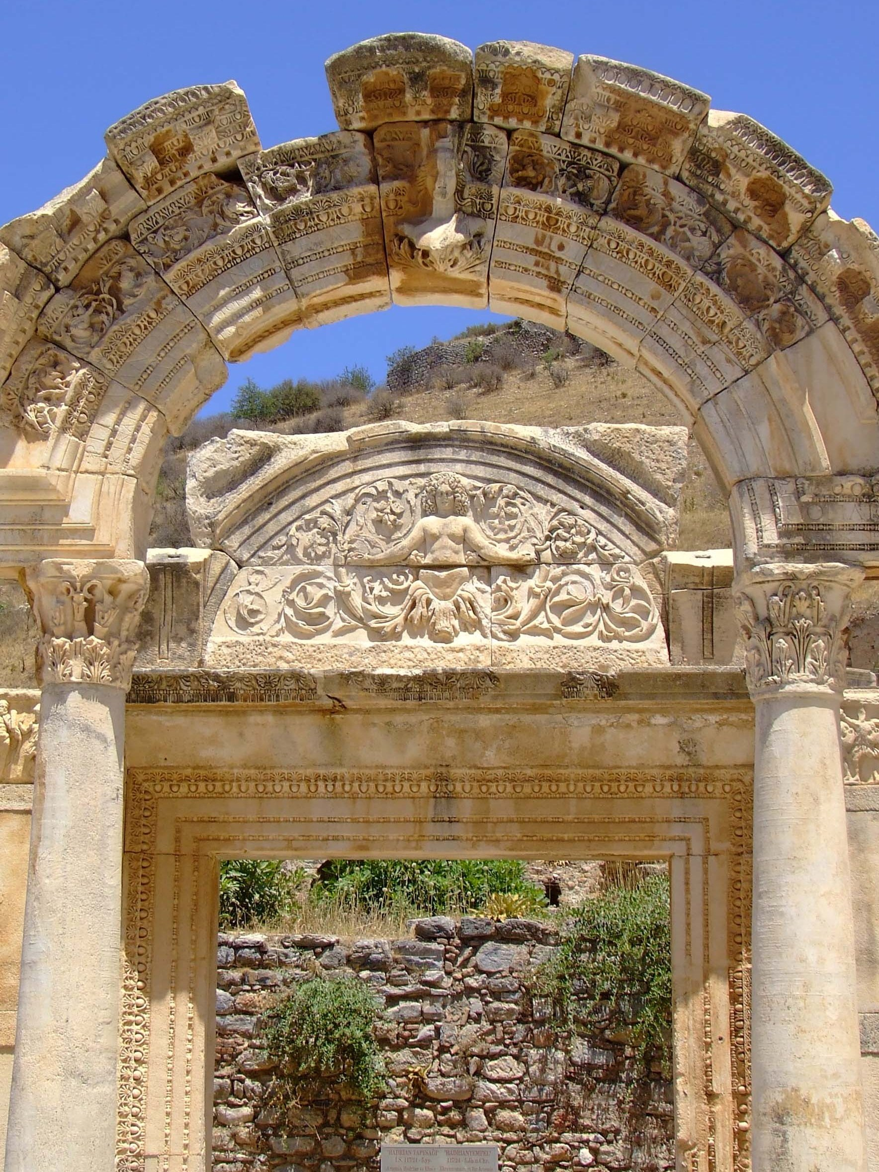 Temple of Hadrian